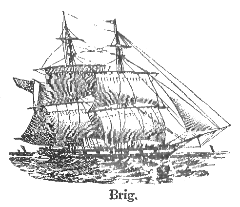 Illustration from 1908 Chambers's Twentieth Century Dictionary. Brig, n. a two-masted, square-rigged vessel.